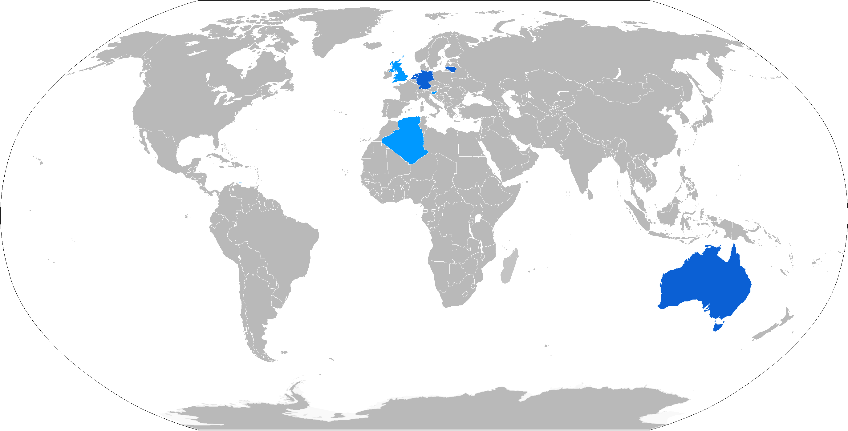 Map of Boxer operators in blue